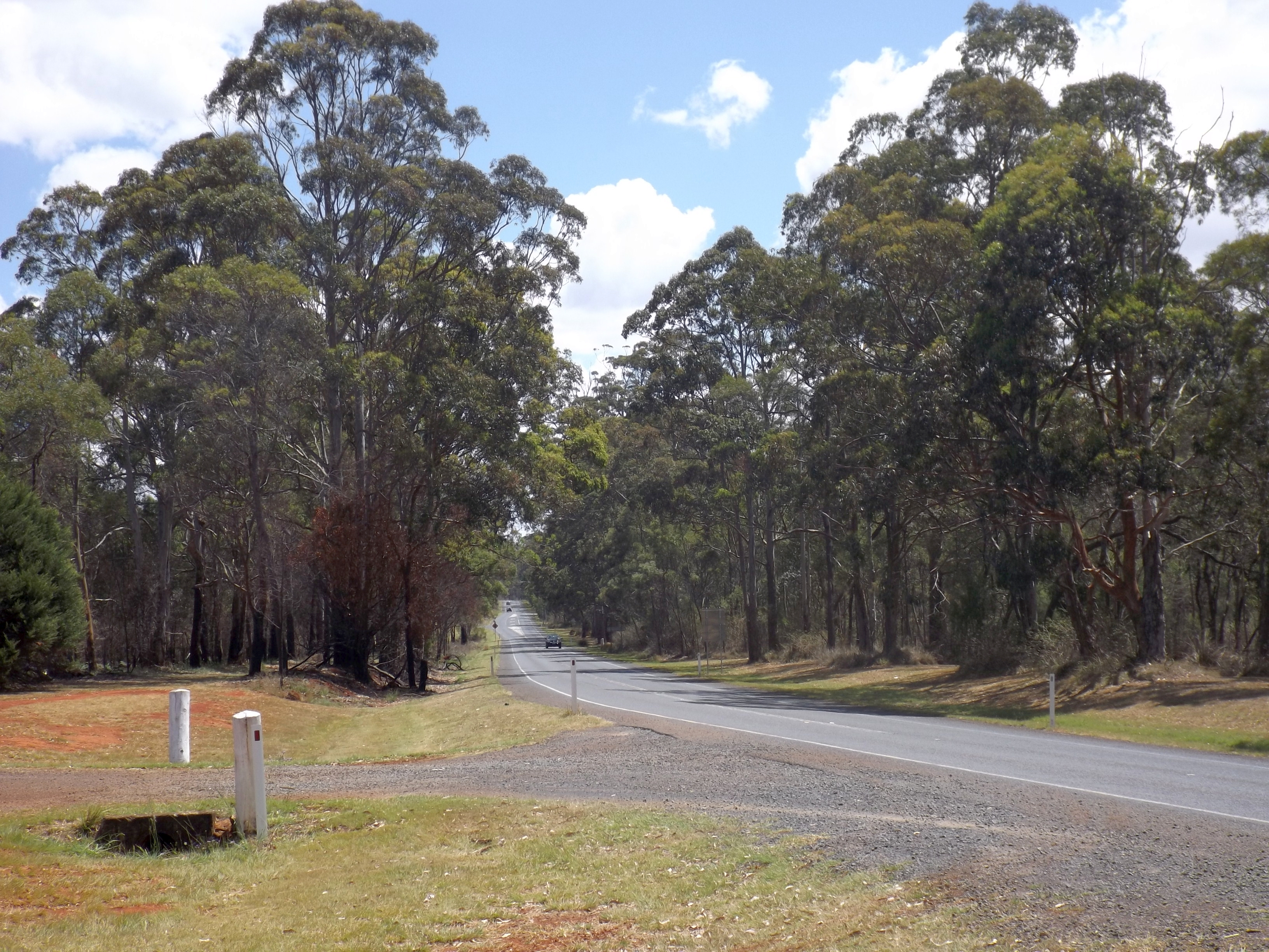 Photo of New England Highway at Cabarlah in the Toowoomba Region, Darling Downs, Queensland, Australia.